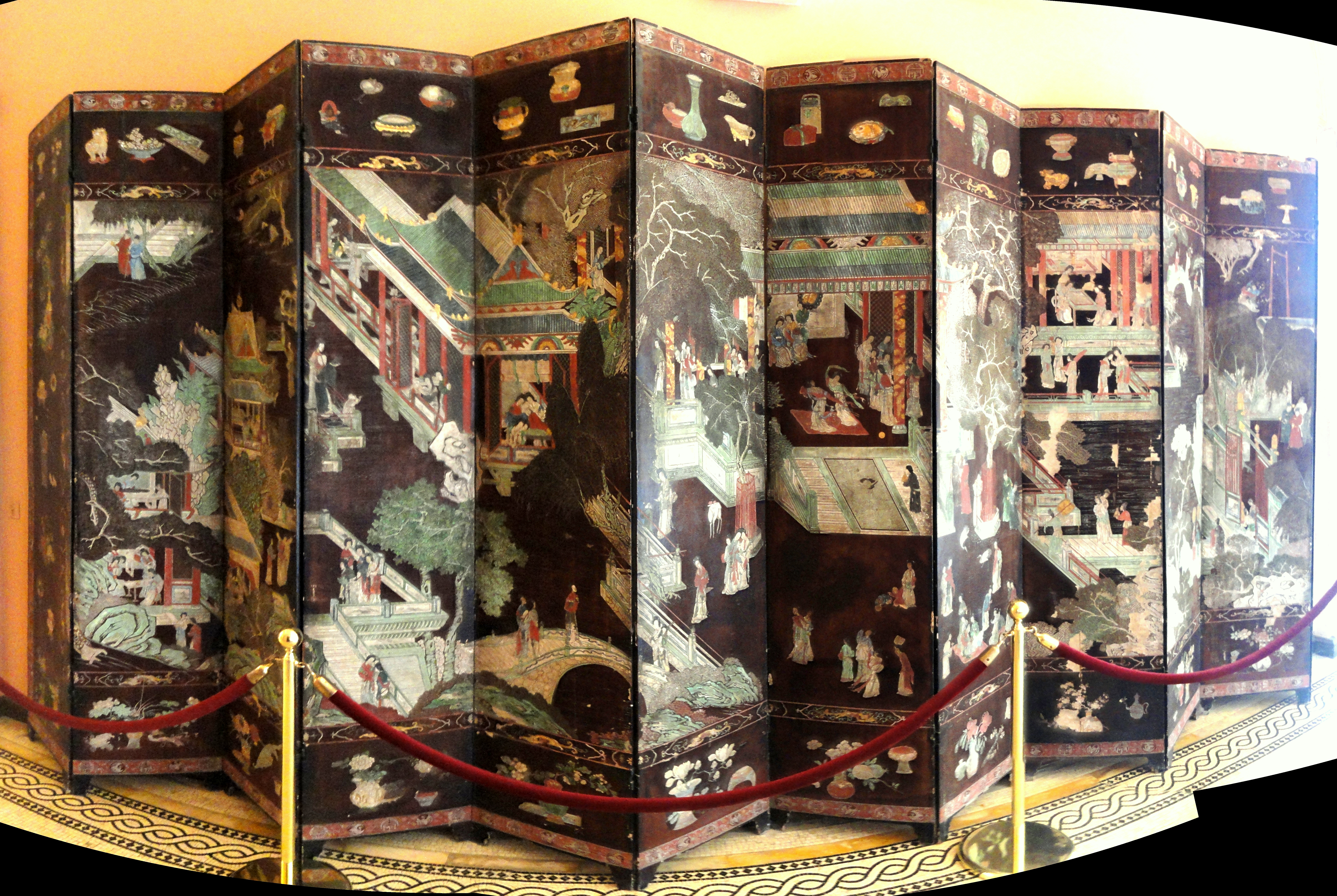 Coromandel lacquer folding screen. Miscellany in the Villa Ephrussi de Rothschild, Saint-Jean-Cap-Ferrat, France.